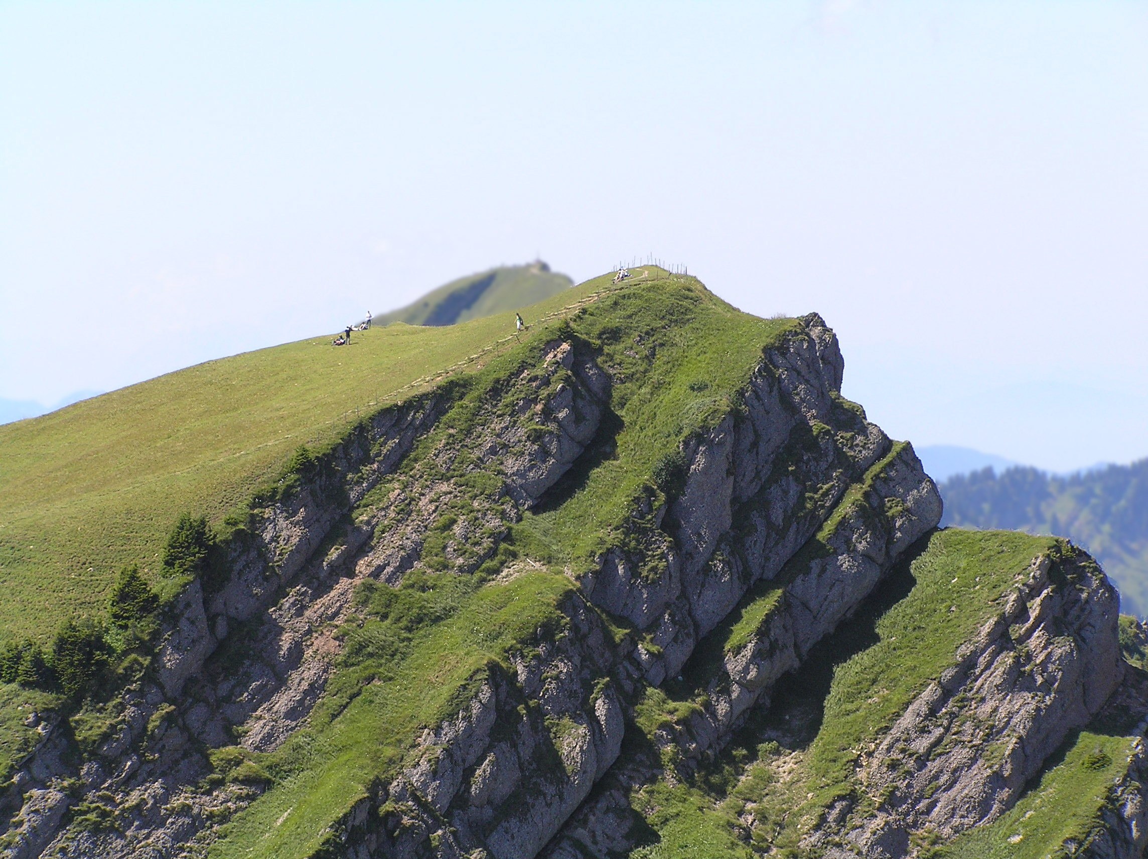 Gelchenwanger Kopf from Rindalphorn; image processing: parts of background mountains were blurred. As a result, the mountain seems to be smalled.